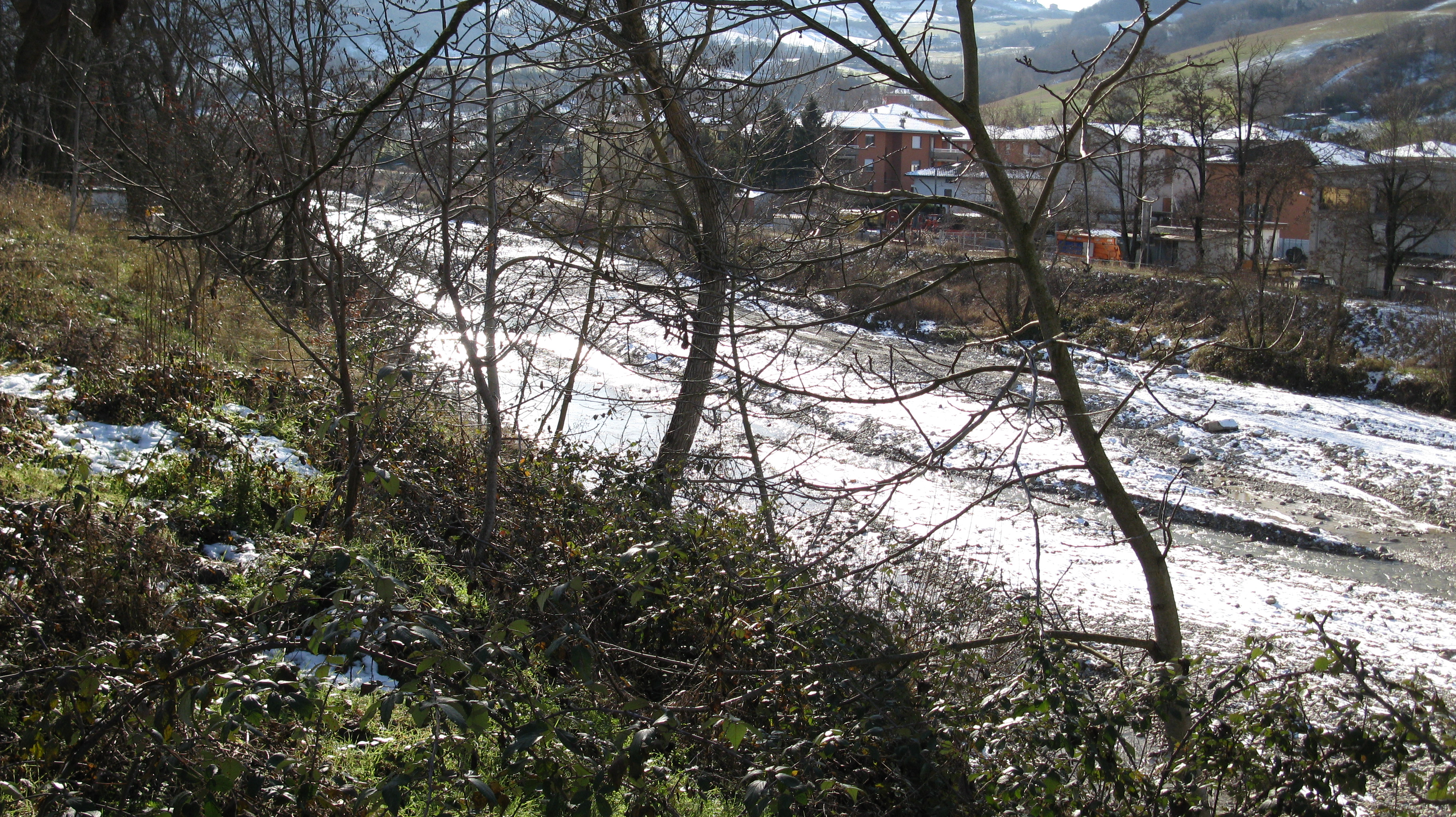 Sporzana River